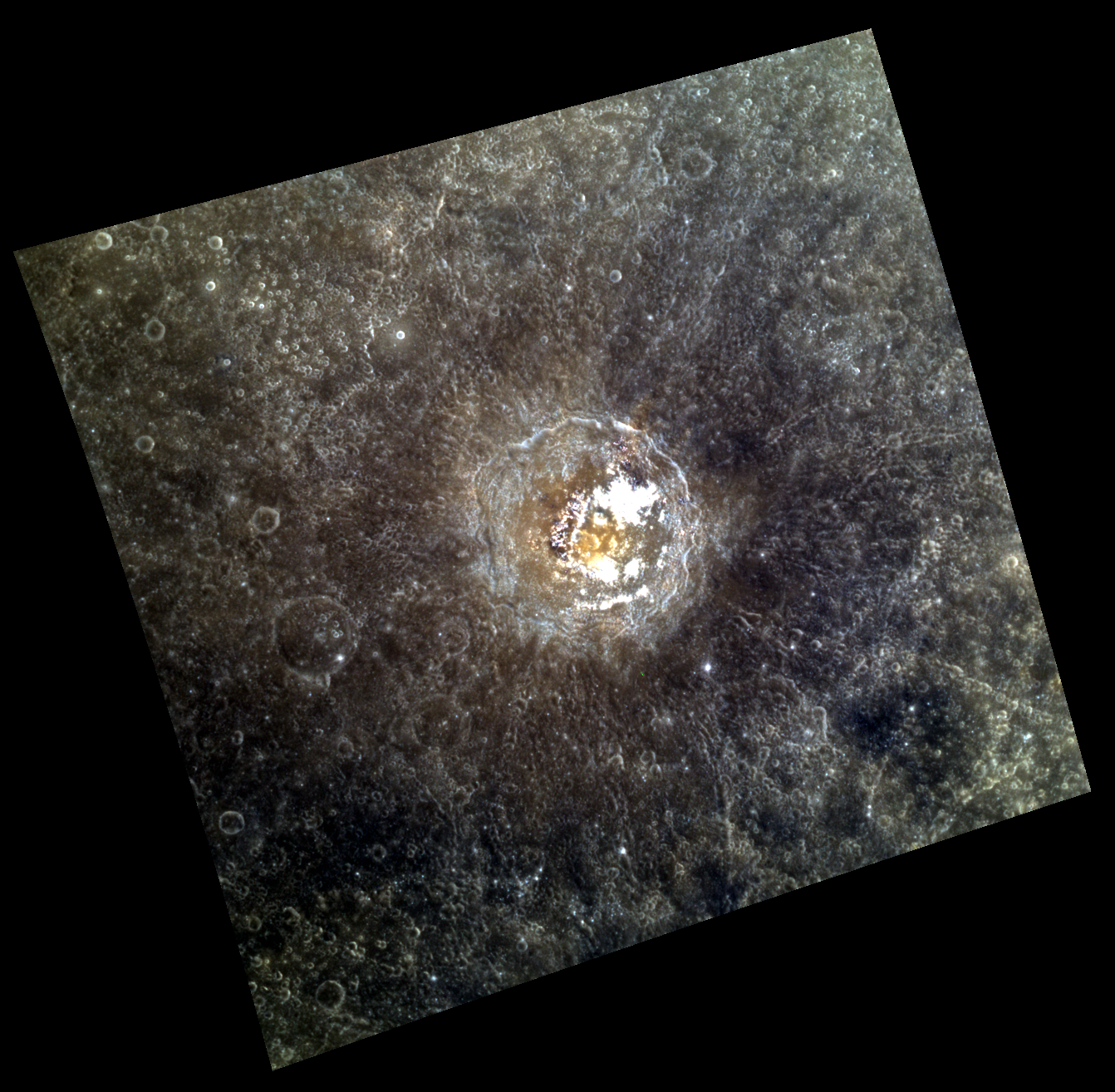 Date acquired: April 25, 2013 Image Mission Elapsed Time (MET): 9232956, 9232948, 9232944 Image ID: 3950118, 3950116, 3950115 Instrument: Wide Angle Camera (WAC) of the Mercury Dual Imaging System (MDIS) WAC filters: 9, 7, 6 (996, 748, 433 nanometers) in red, green, and blue Center Latitude: 3.94° Center Longitude: 211.2° E Resolution: 376 meters/pixel Scale: Tyagaraja crater is about 97 km (60 mi.) in diameter. Incidence Angle: 13.4° Emission Angle: 18.0° Phase Angle: 31.5° Of Interest: This colorful scene of Tyagaraja crater and its surroundings contains many different types of material. The very bright areas on the floor of the crater are hollows, and are so much brighter than the surrounding areas that they appear saturated in this particular image (whose "stretch" optimizes the appearance of the darker material). The reddish spot at the center of the crater is likely material surrounding a pyroclastic vent. The dark material that appears bluish in this color composite is low reflectance material (LRM). Areas of different colors on Mercury generally correspond to differences in composition. This image was acquired as a targeted high-resolution 11-color image set. Acquiring 11-color targets is a new campaign that began in March 2013 and that utilizes all of the WAC's 11 narrow-band color filters. Because of the large data volume involved, only features of special scientific interest are targeted for imaging in all 11 colors.